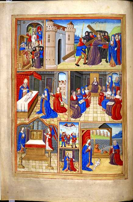 This is a remarkably large and lavishly illuminated Book of Hours, combining French and English styles. The first leaf contains a list of obits members of the royal family and of the 4th, 5th, and 6th Earls of Ormond and their wives, so it was probably made for Anne Boleyn's grandfather, Thomas Butler (1426-1515), 7th Earl of Ormond, or a member of his family. It was given in the early 16th century to a chapel at 'Suthwyke', probably Southwick in Hampshire. With no clear rationale for the selection of scenes or their arrangement, this miniature, is the third of a series of three. It includes the Annunciation, Visitation, Annunciation to the Shepherds, Nativity, Presentation in the Temple, Christ Among the Doctors, Christ Before Pilate, Flagellation, and Carrying of the Cross.